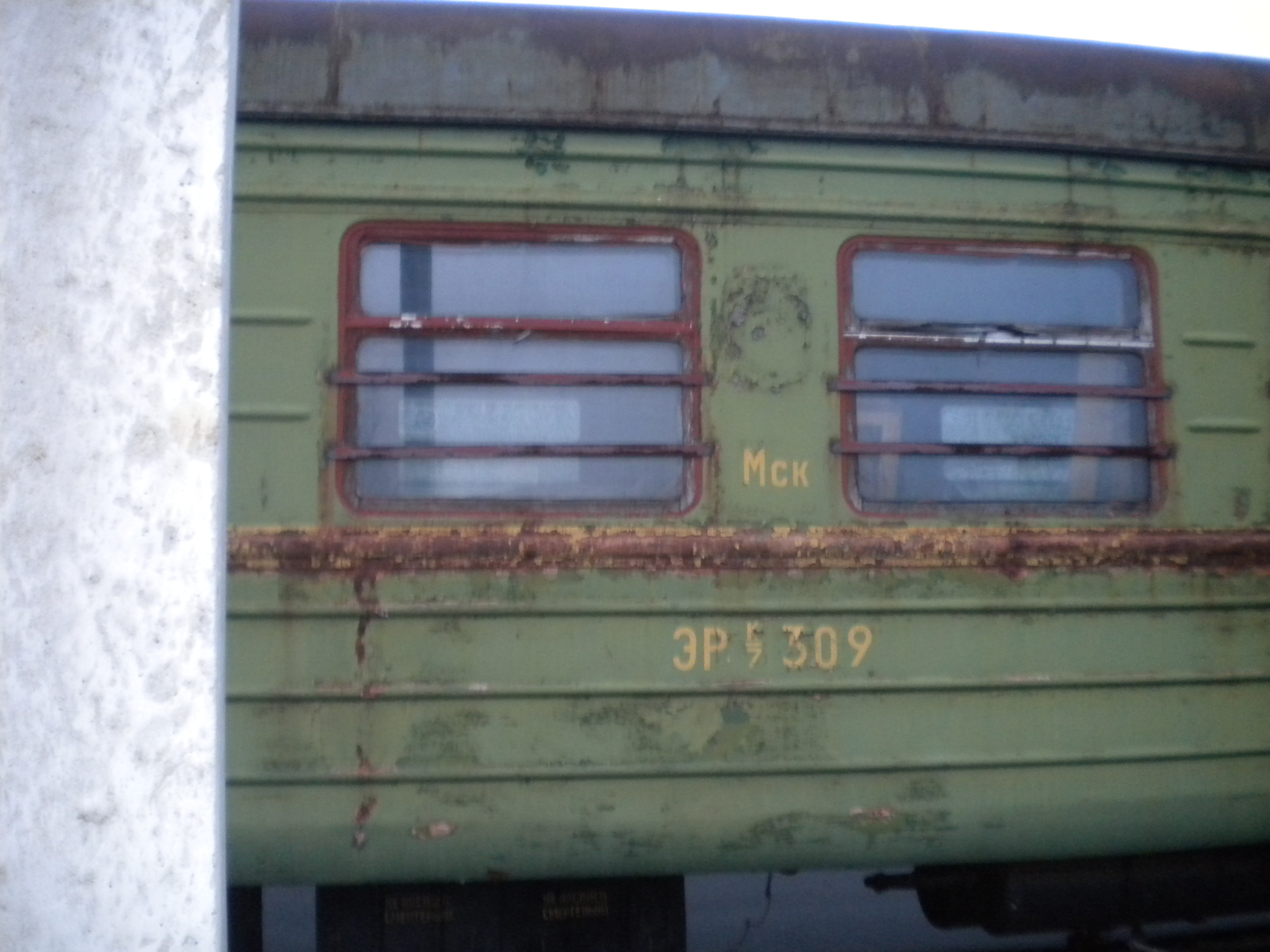 ER7K carriage markings (in 2015)